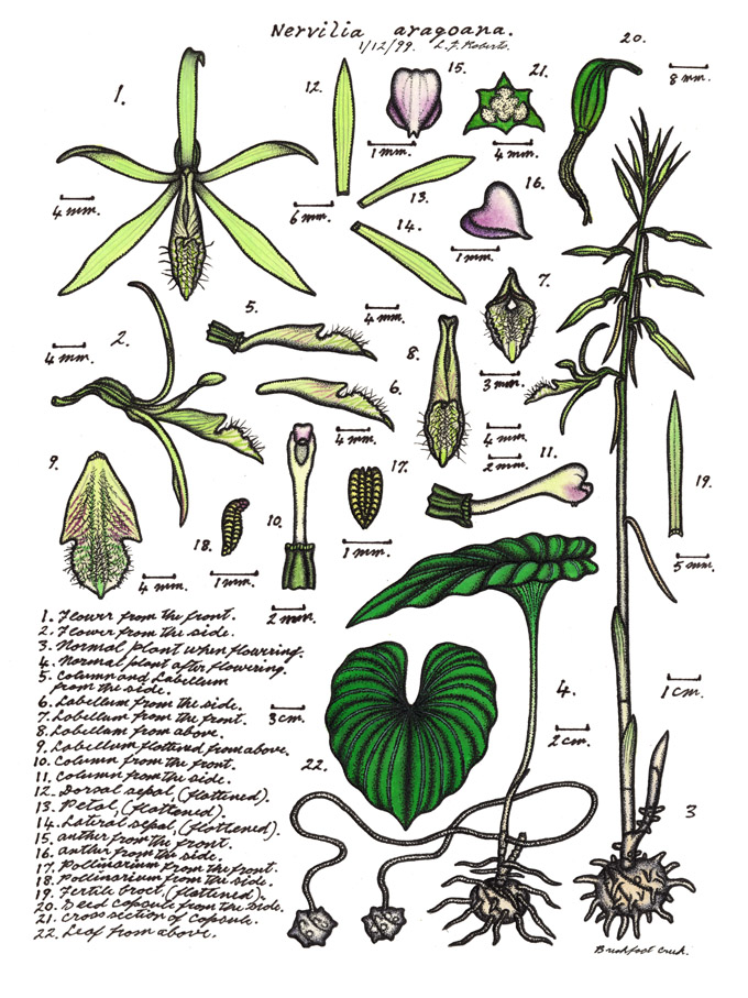 This image is one of a series by Lewis Roberts